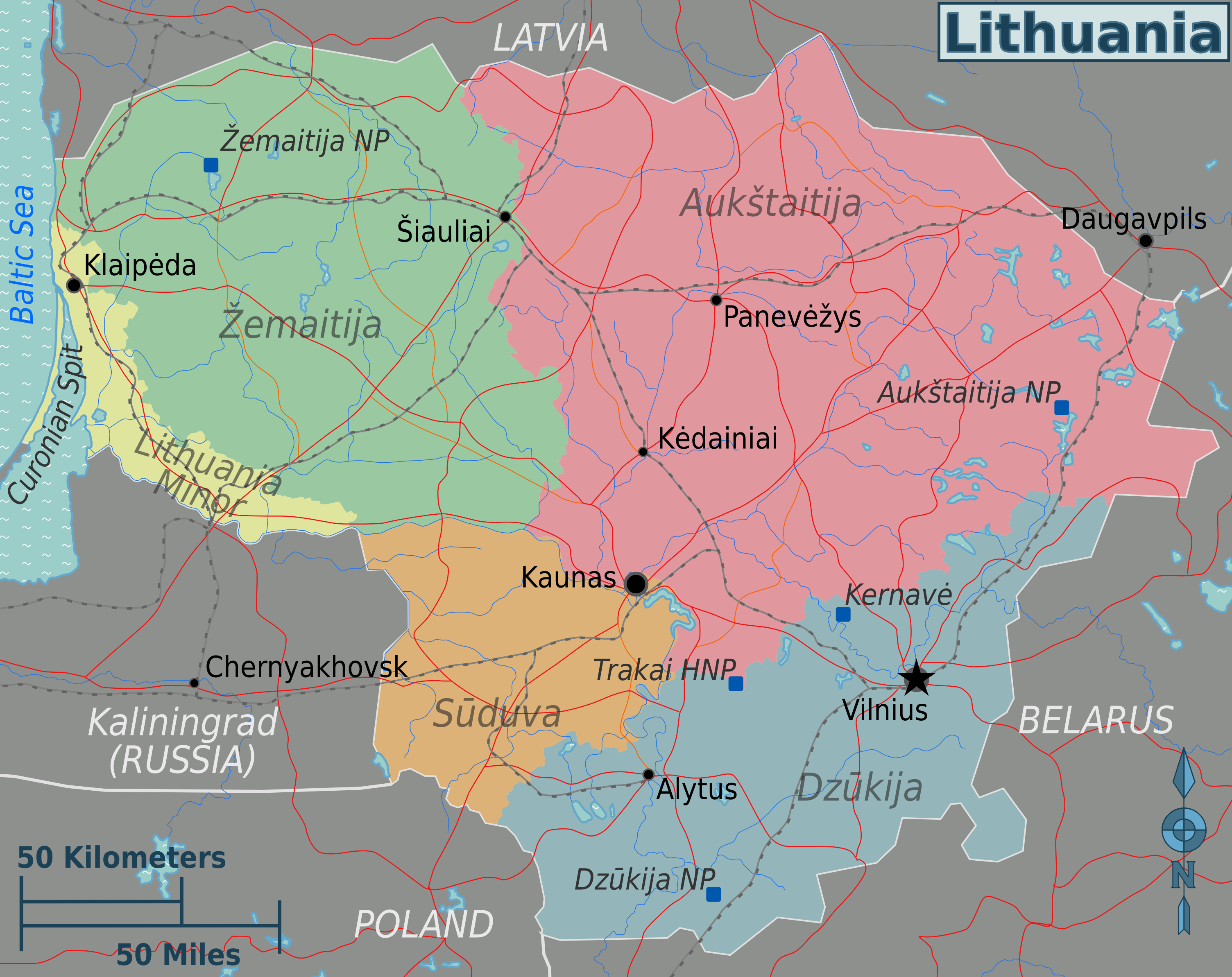 Lithuania regions map for use on Wikivoyage, English version